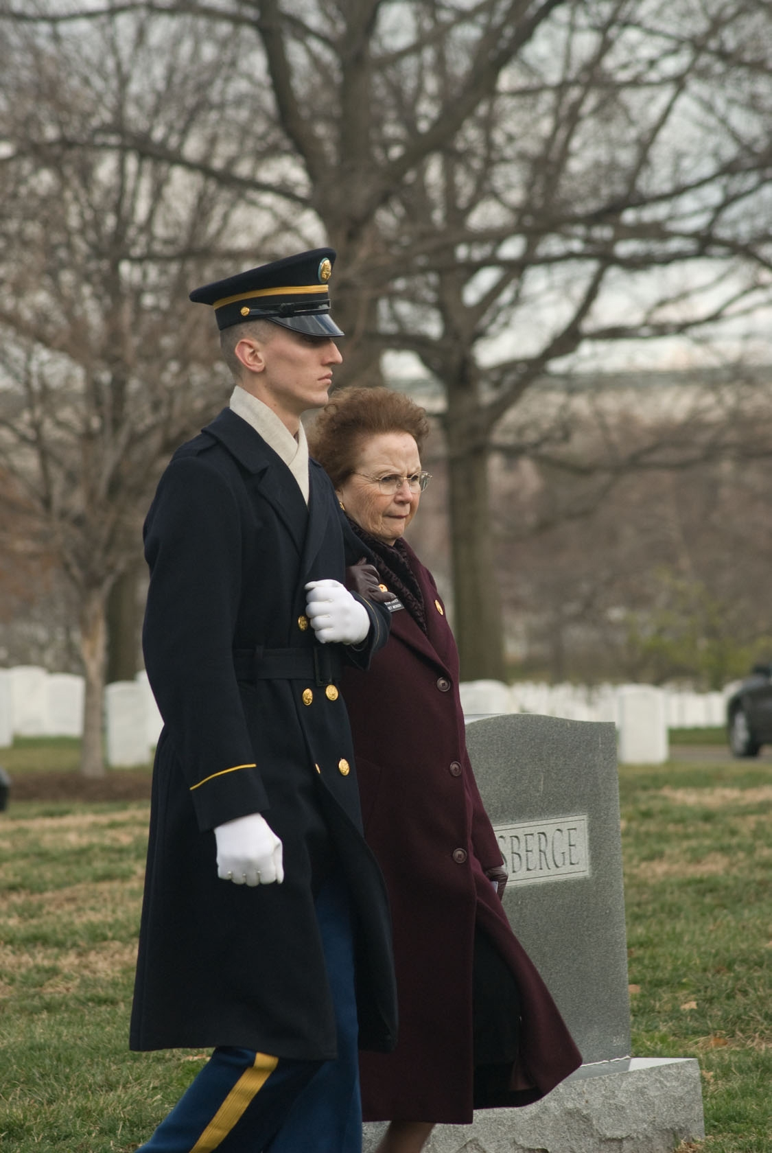 United States Army Arlington Lady being escorted to the grave of a service member - May 6, 2008. US Army photograph.